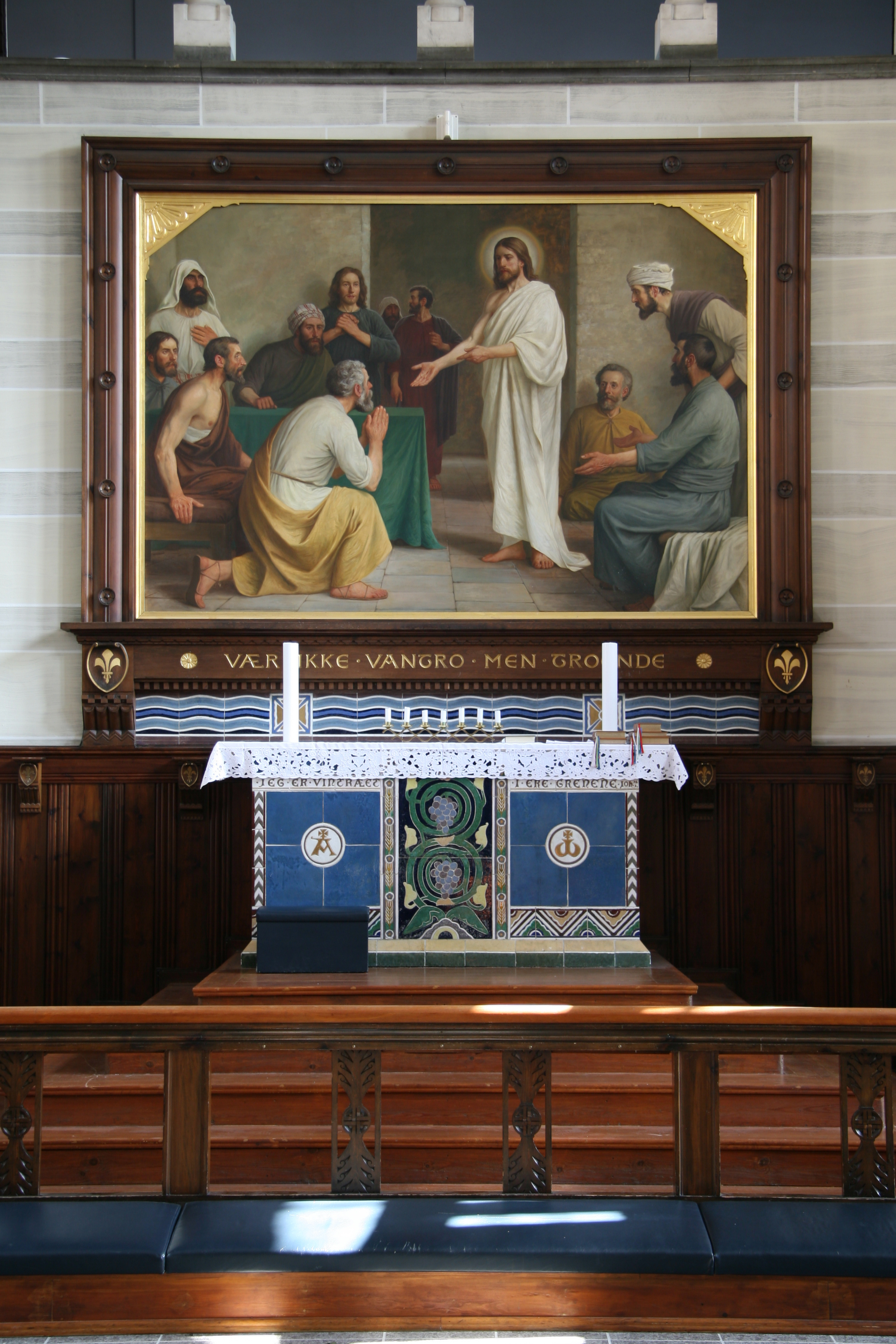 Sions Kirke in Copenhagen, Denmark. Altar. Painting by Poul Steffensen (1866-1923)